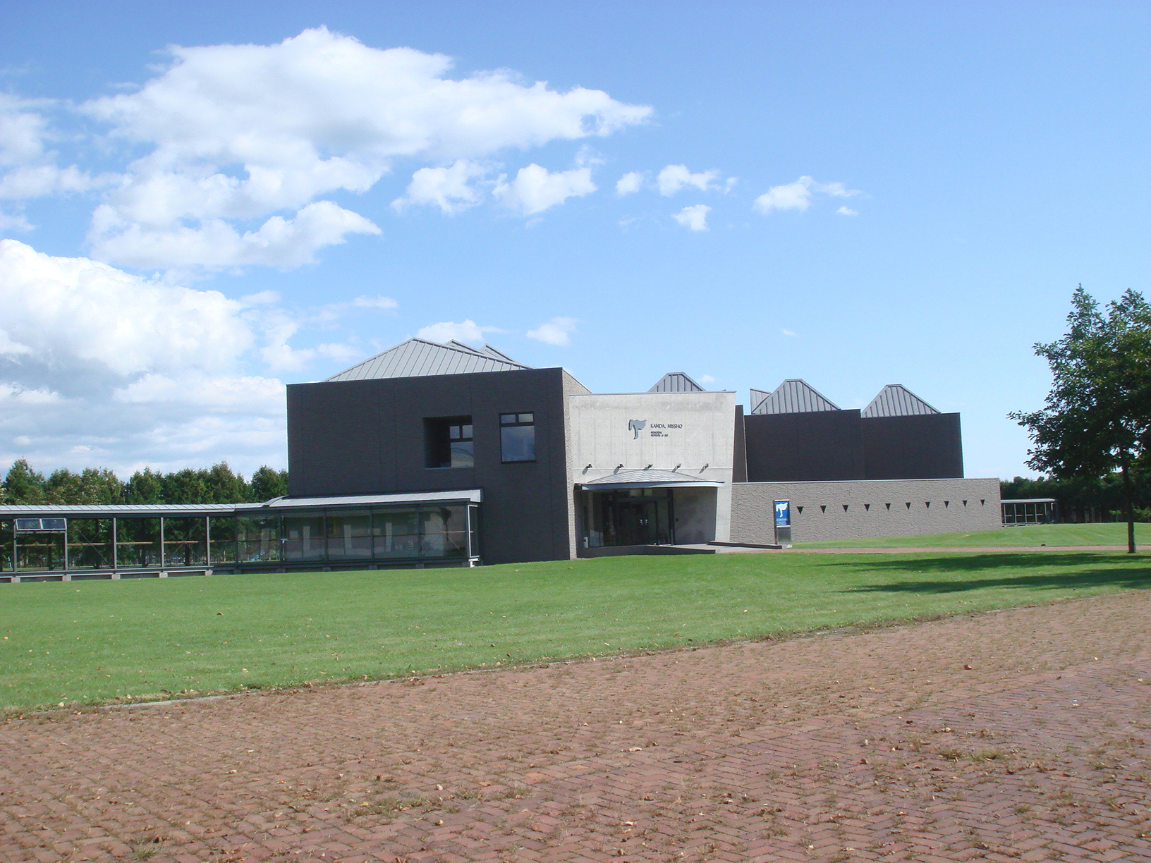 Michinoeki(Roadside Station) Shikaoi, Kandanissho Memorial Museum of Art (Shikaoi, Hokkaidō)